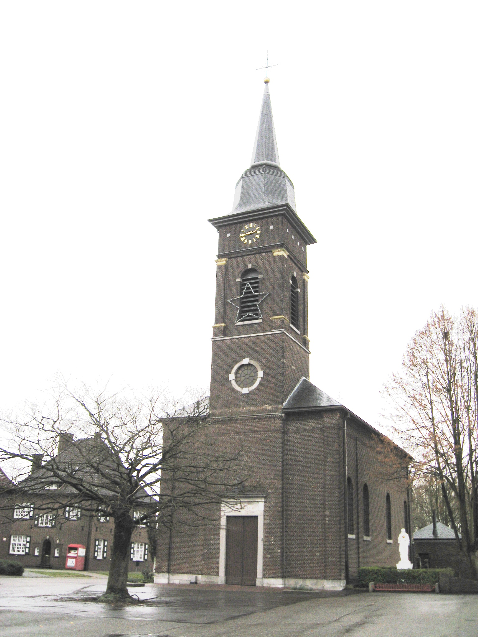 Church of Saint Remigius in Vucht